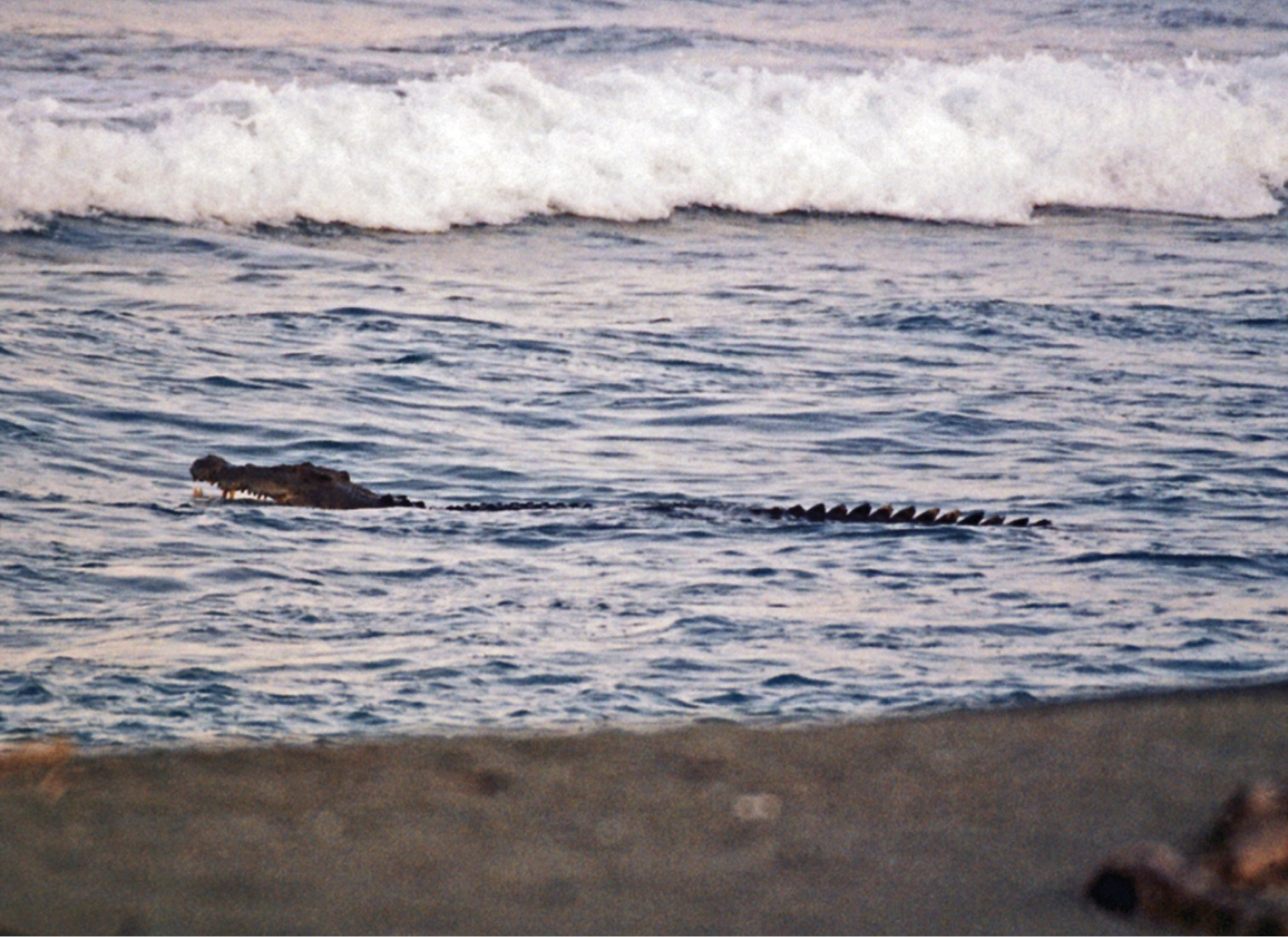 Crocodylus porosus foraging in surf at Maconacon, March 2004. Photo MVW.